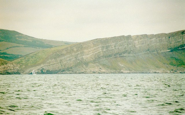 Worbarrow and Gad Cliff. Purbeck and Portland beds rising dramatically out of the sea east of Worbarrow Tout to produce the striking Gad Cliff. View from the sea; the dwarfed yacht is off Pondfield